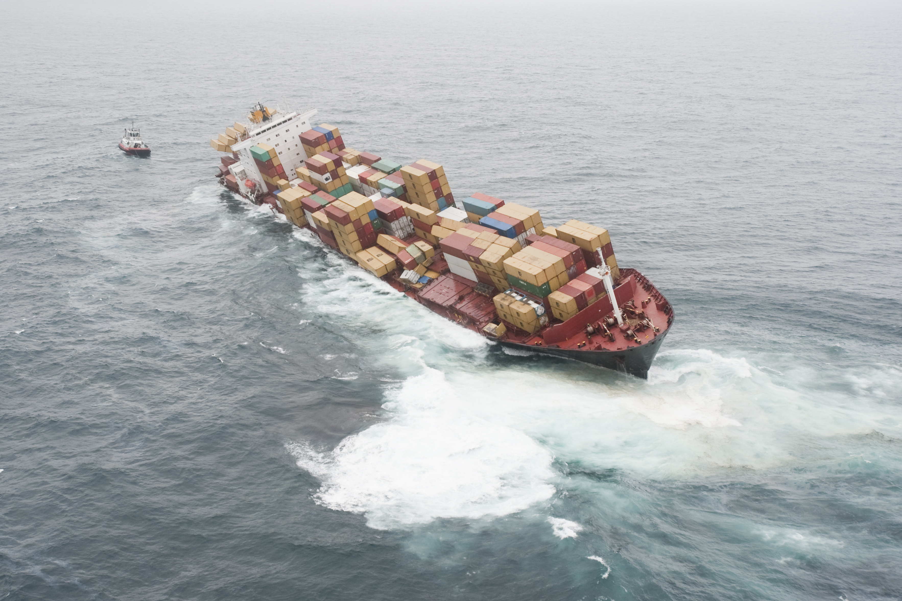 Aerial view of grounded ship Rena